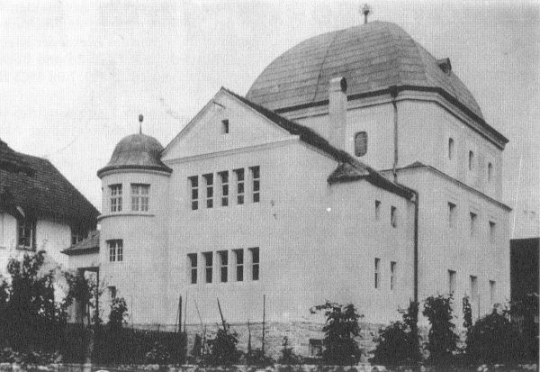 View of the synagogue of Bad Bruckenau (Germany) in the 1920's. The synagogue was heavily destructed by the nazis in 1938 during the crystal night.